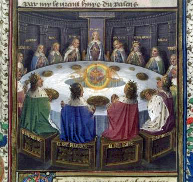 King Arthur's knights, gathered at the Round Table to celebrate the Pentecost, see a vision of the Holy Grail. The Grail appears as a veiled ciborium, made of gold and decorated with jewels, held by two angels. From folio 610v in BNF Fr 116, ordered by Jacques d'Armagnac. Top Row (left to right): "Liovnel" (Lionel), Gawain, "Bort" (Bors), Lancelot, "Galard" (Galahad) in the Siege Perilous, "Perseval" (Percival), "Le Roy Artvs" (King Arthur of Britain), "Helias" (Elyan), "Tristrã" (Tristan) Bottom Row (left to right): "Etor" (Ector), "Le Roy Ryons" (King Rience of Ireland and North Wales), "Le Roy Carados" (King Caradoc Strongarm of Gwent), "Le Roy Ydier" (King Yder=Sir Edern), "Le Roy Bancemag" (King Bagdemagus of Gore), "Heva" or "Kev" (Erec, Kay, or Hoël=Hovelius)